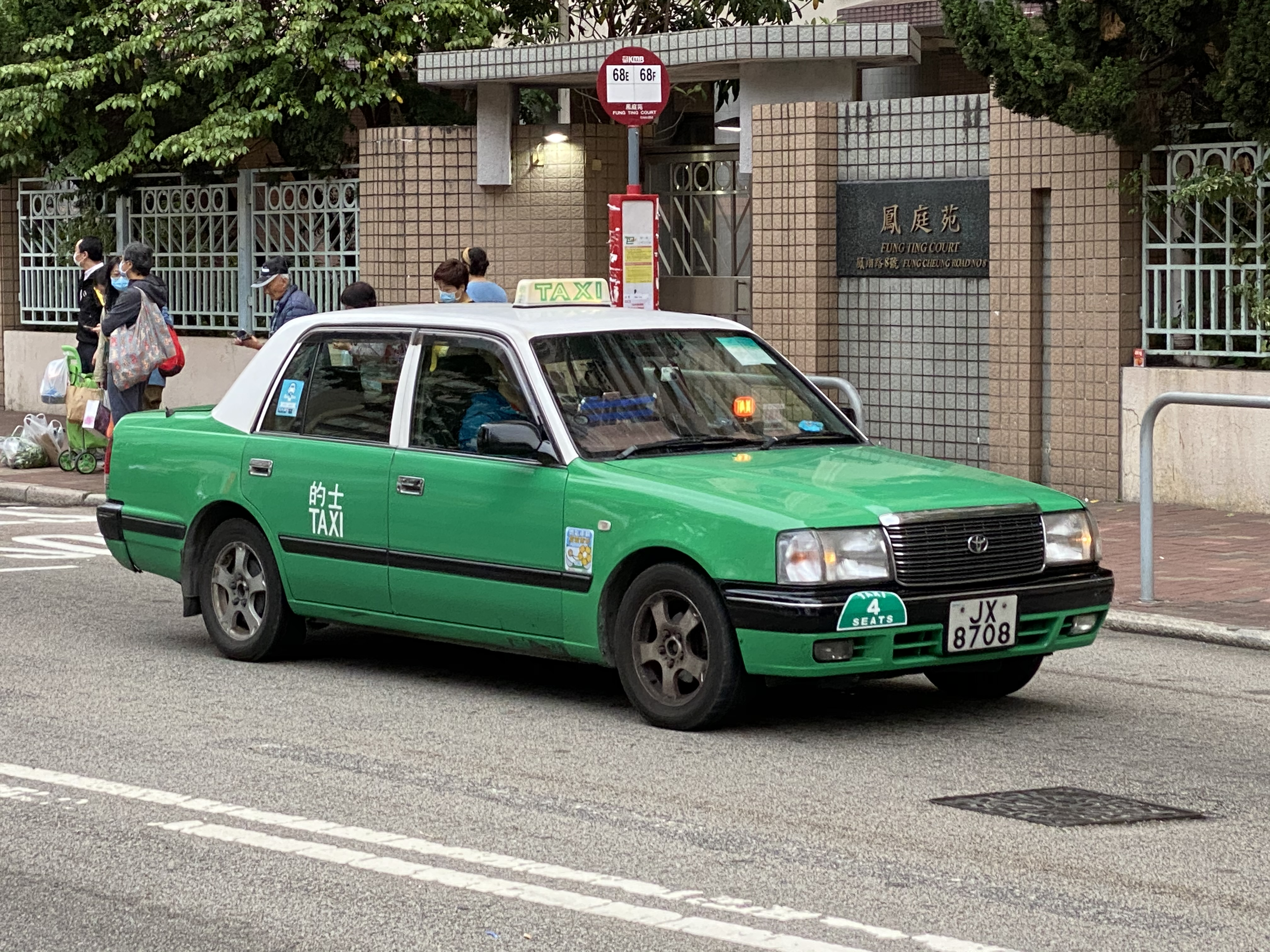 中文（香港）: This photo is taken in Yuen Long.